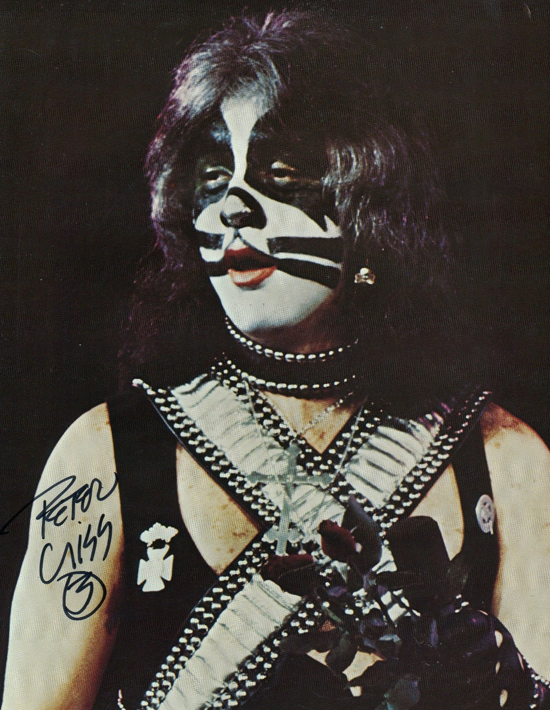 Kiss drummer Peter Criss.